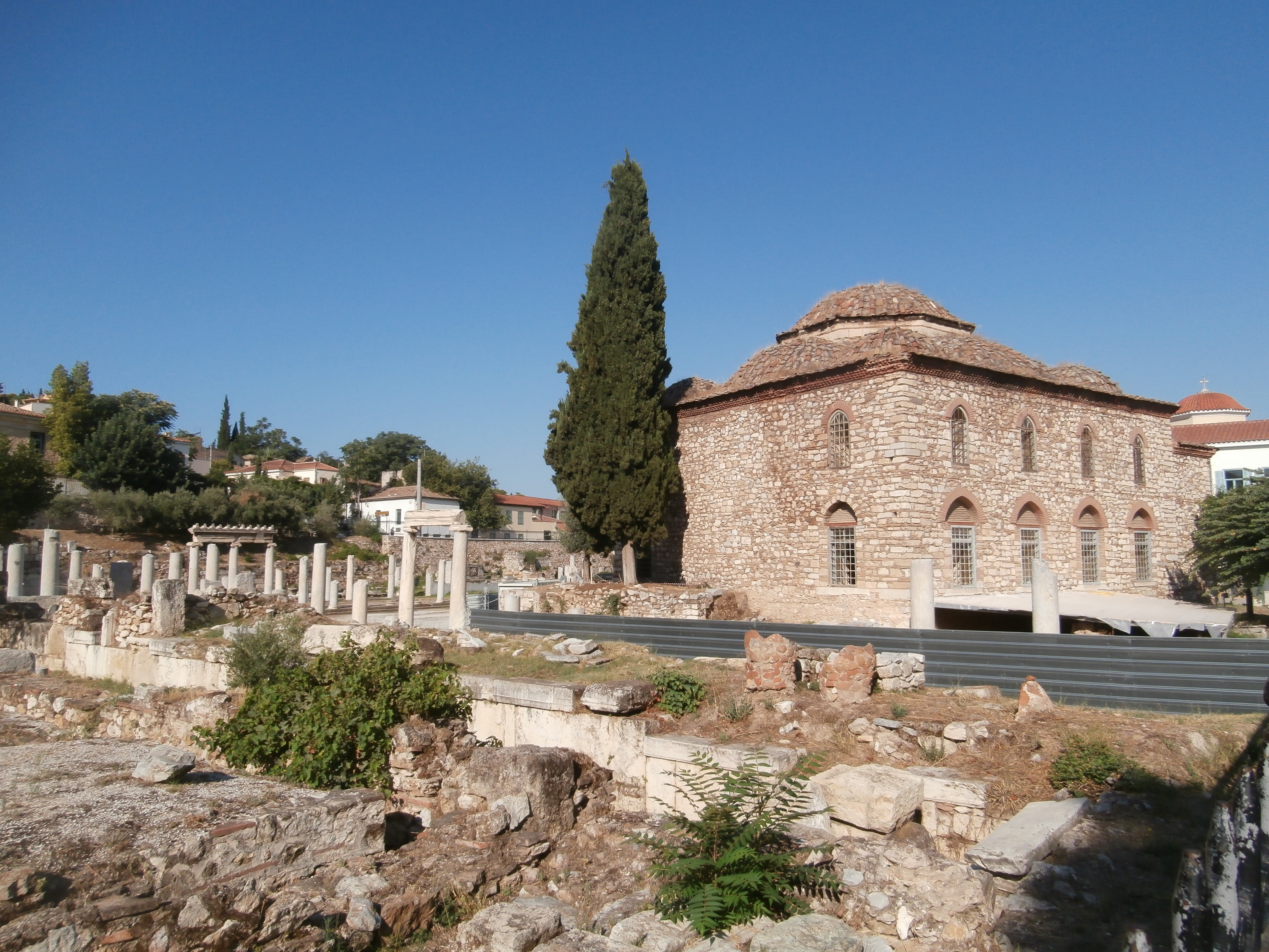 Fetiye mosque, Athens